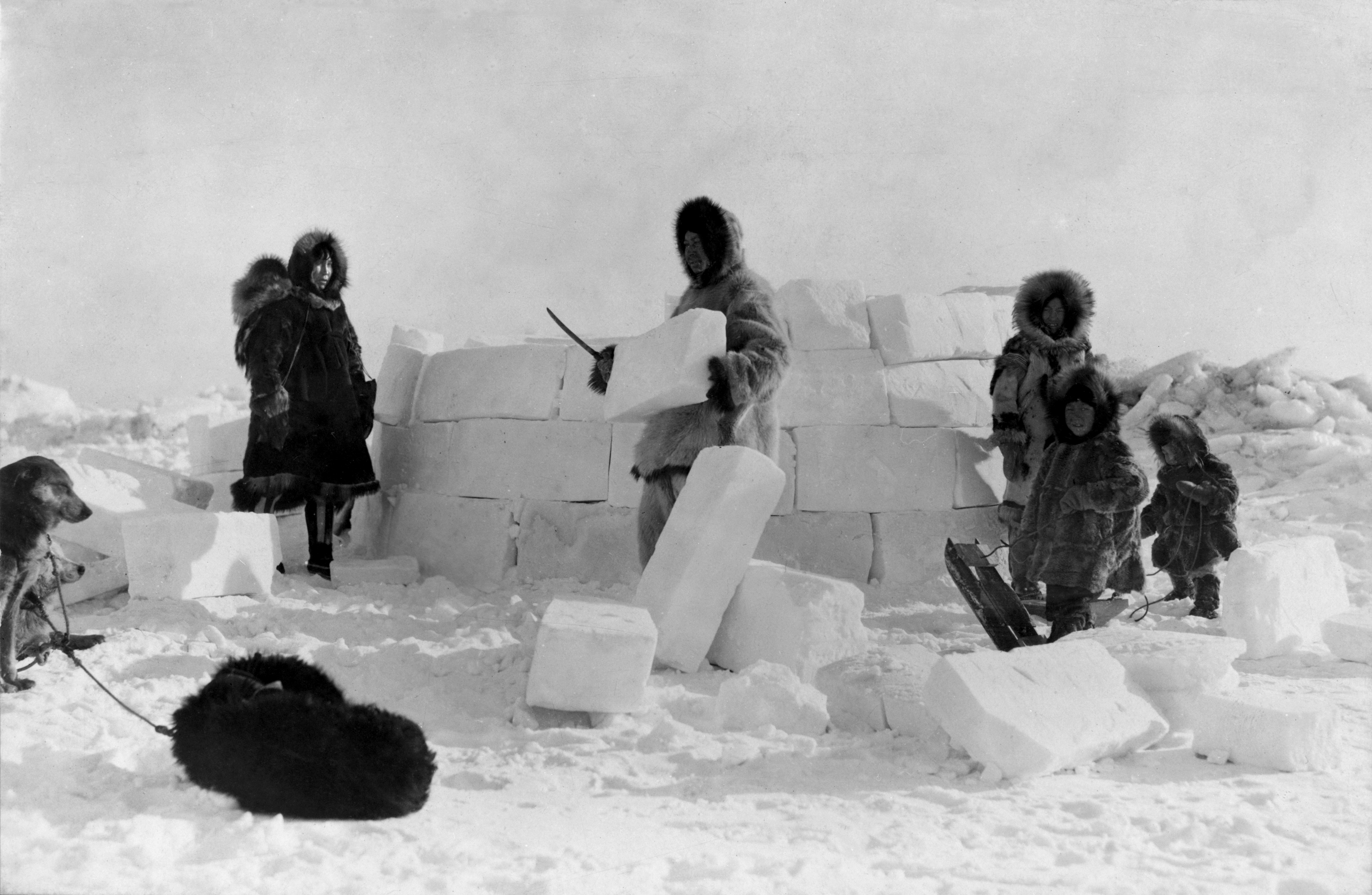 Photograph shows Eskimos (Inuit) constructing an igloo with blocks of snow as children and dogs stand by.